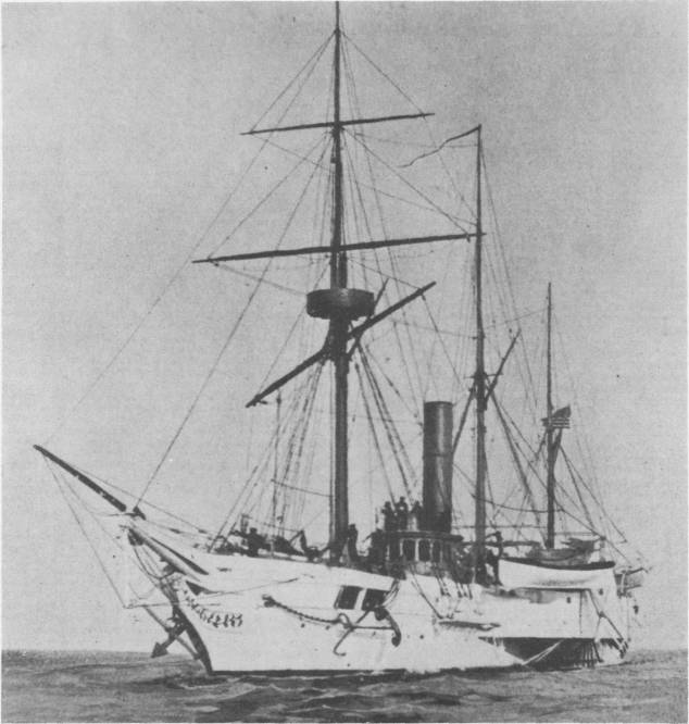 USS Wolverine (IX-31). The iron sidewheeler Michigan was renamed Wolverine late in her life to allow her original name to be given to a new battleship (Battleship No. 27).